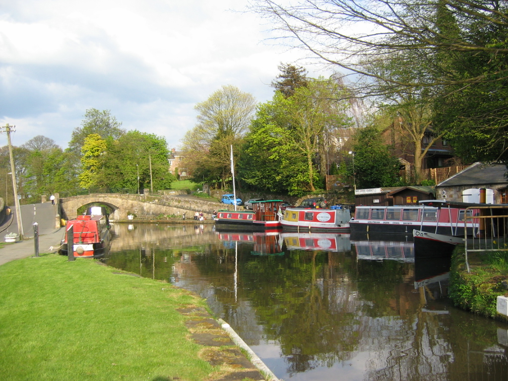 Scottish Inland Waterways Association Rally 2008 at Linlithgow, West Lothian, Scotland